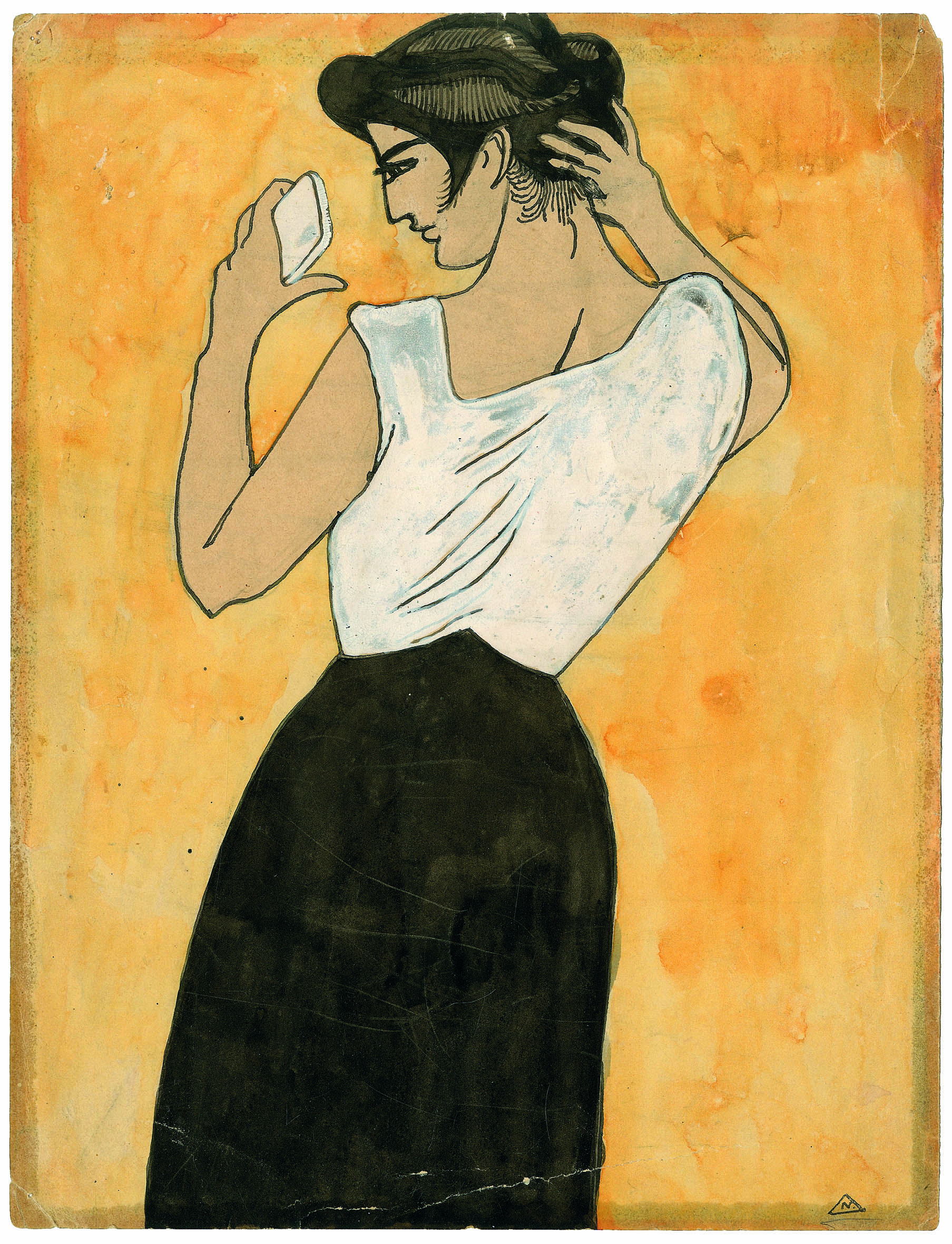 Nikos Stefanou Dragoumis, Marika Dragoumis, the artist's sister, 1909, indian ink and gouache on paper, private collection